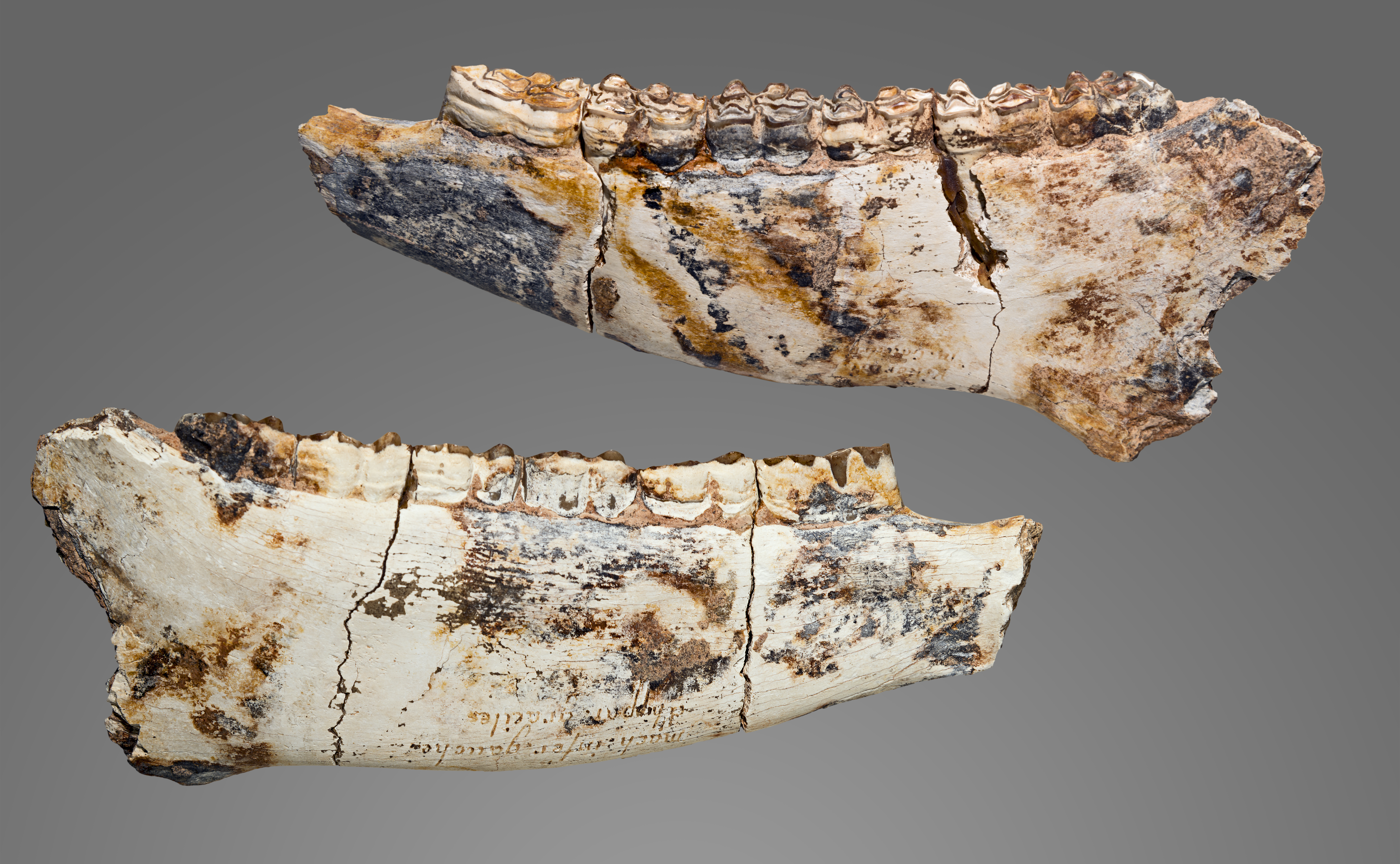 Hippotherium gracile, maxilla : two views of the same specimen Size : 22.5x10x3cm Stage : Miocene 23.03 to 5.332 million years ago (Ma). Collection : Jean Albert Gaudry 1854.